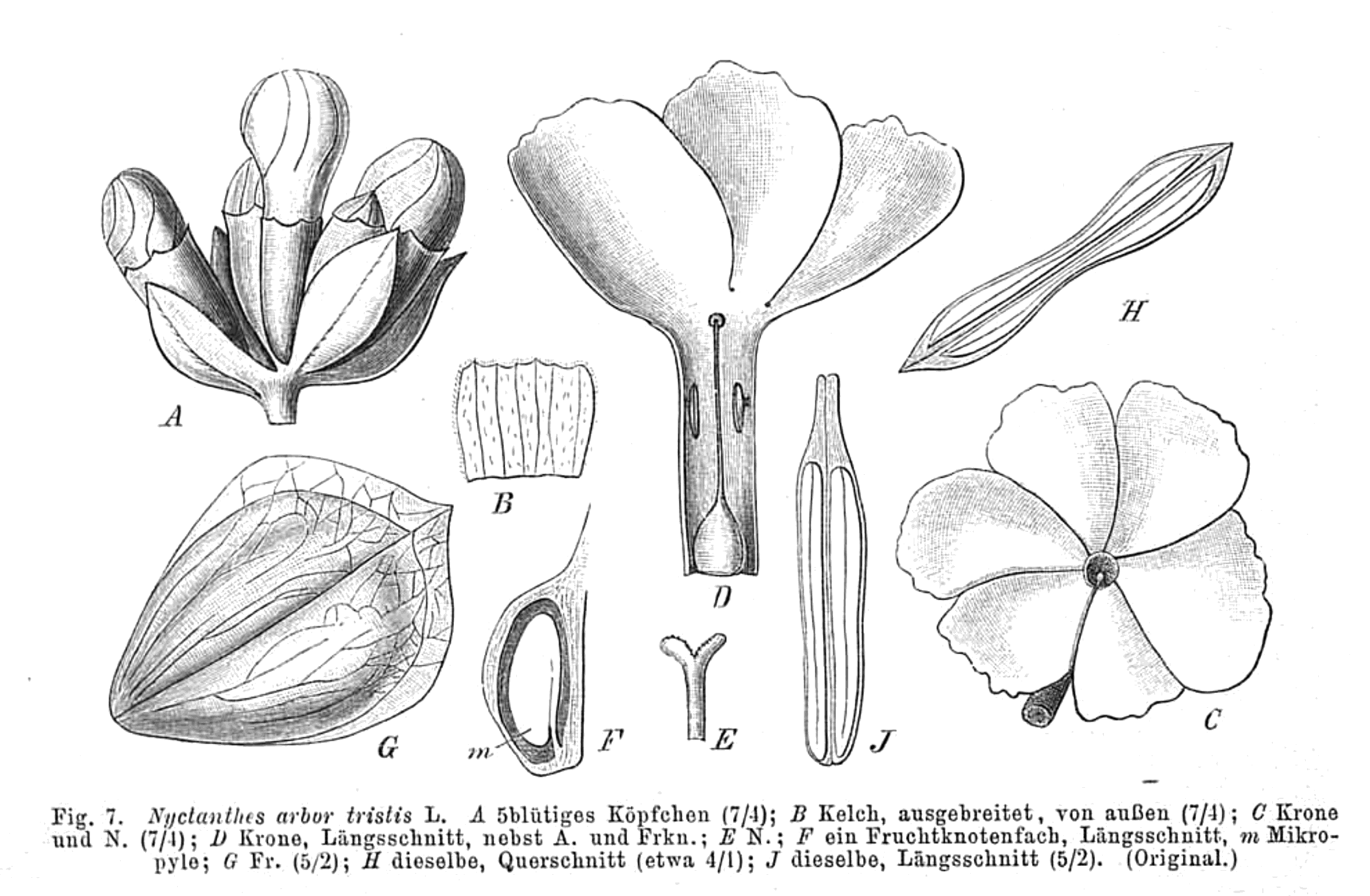 Nyctanthes arbor-tristis L. A. Head with 5 flowers. B. Calyx, flattened, from exterior. C. Petals and stamen. D. Long. cut of flower showing ovary. E. Stamen. F. Ovary with long. cut slot; m=micropylum. G. Fruit. H. Cross sec. of fruit. J. Long. cut fruit.